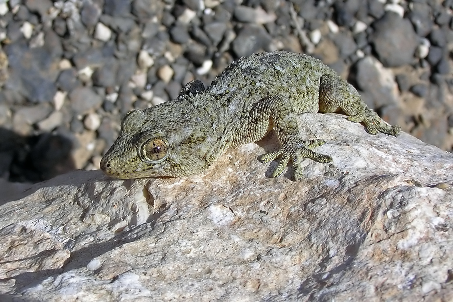 A Spiny Gecko in rocky desert habitat near Salinas del Janubio on the Canary Island of Lanzarote. Photograph by Yummifruitbat in July 2006. =Tarentola, probably T. delalandii or T. boettgeri B kimmel 11:54, 10 September 2006 (UTC)